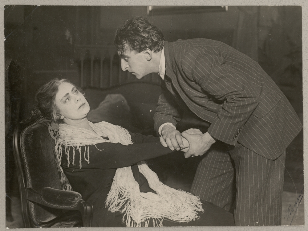 Betty Nansen and Henrik Bentzon in Ibsen's Ghosts 1925 KB id: ke019901 Photo: Department of Maps, Prints and Photographs, The Royal Library, Denmark.